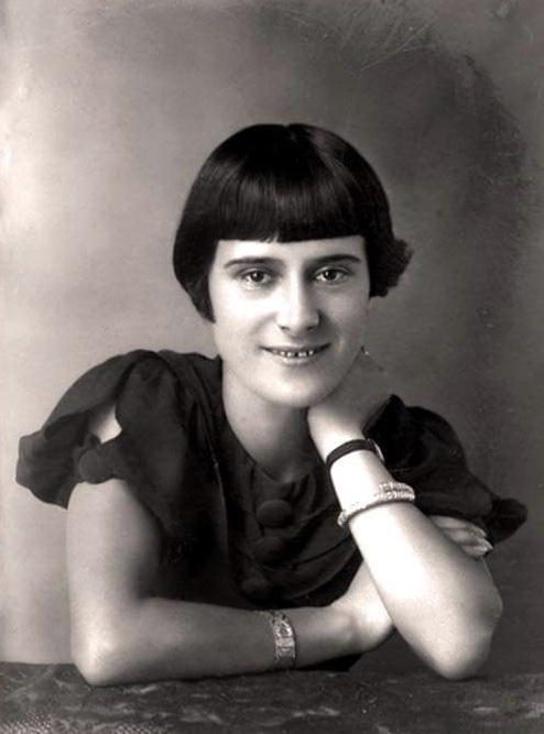 Marie Kraja portrait during the war